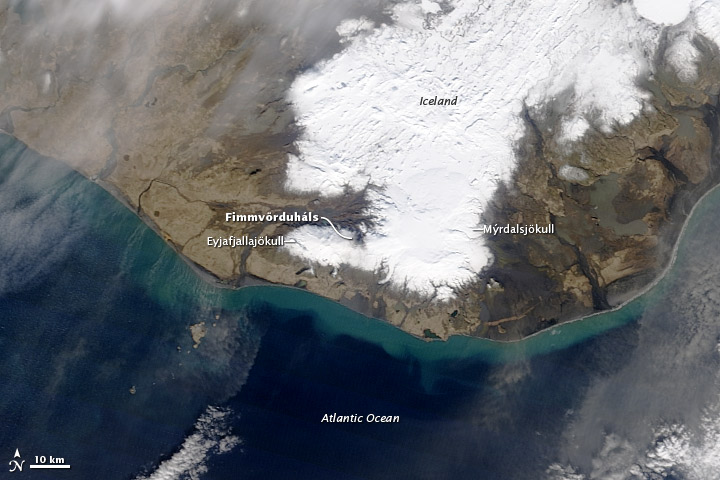 The volcanic eruption near Eyjafjallajökull persists into its second week, with continued lava fountaining and lava flows spilling into nearby canyons. The eruption is located at the Fimmvörduháls Pass between the Eyjafjallajökull ice field to the west (left) and the Mýrdalsjökull ice field to the east (right). This natural-color satellite image was acquired on March 26, 2010, by the Moderate-Resolution Imaging Spectroradiometer (MODIS) aboard NASA’s Terra satellite. Dark ash and scoria cover the northern half of the Fimmvörduháls Pass. White snow covers the rest of the pass, sandwiched between white glaciers. Snow-free land is tan, brown, or dark gray, devoid of vegetation in early spring.